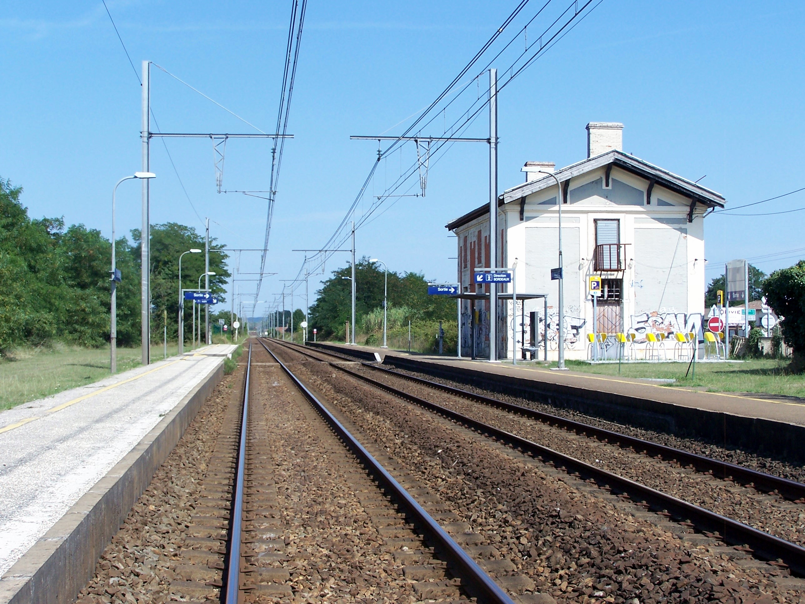 Train station of Saint-Macaire (Gironde, France)